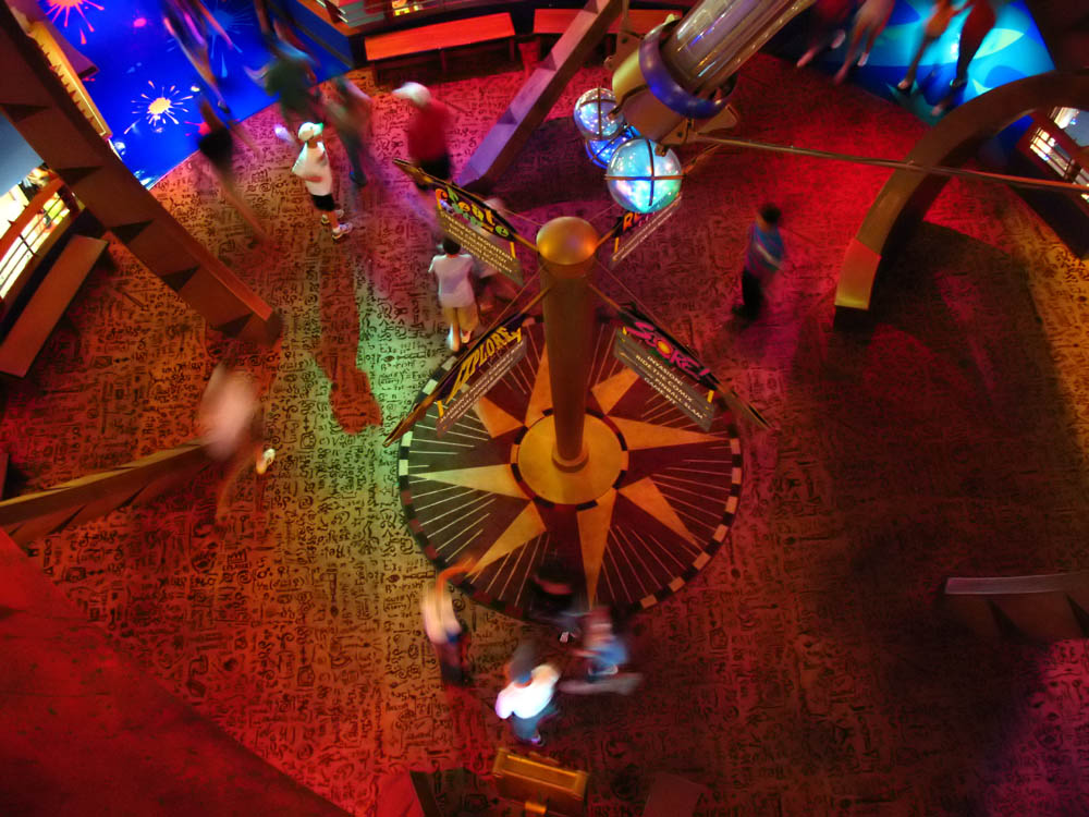 The third floor atrium at DisneyQuest. Taken by myself in June 2007